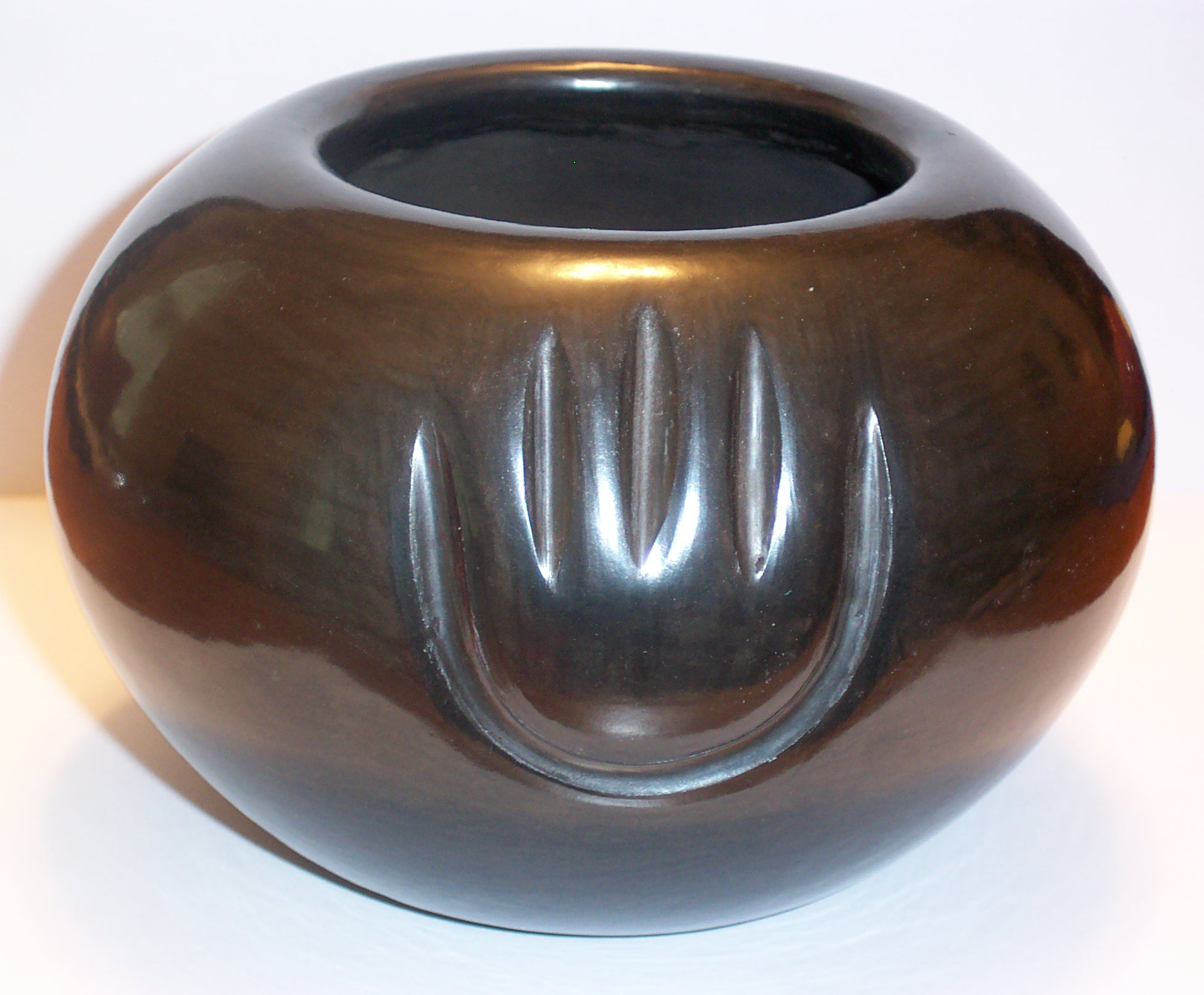 Black stone-polished bowl with bear paw design, crafted in 1996 by Angela Baca, Santa Clara Pueblo, New Mexico. From a private collection.